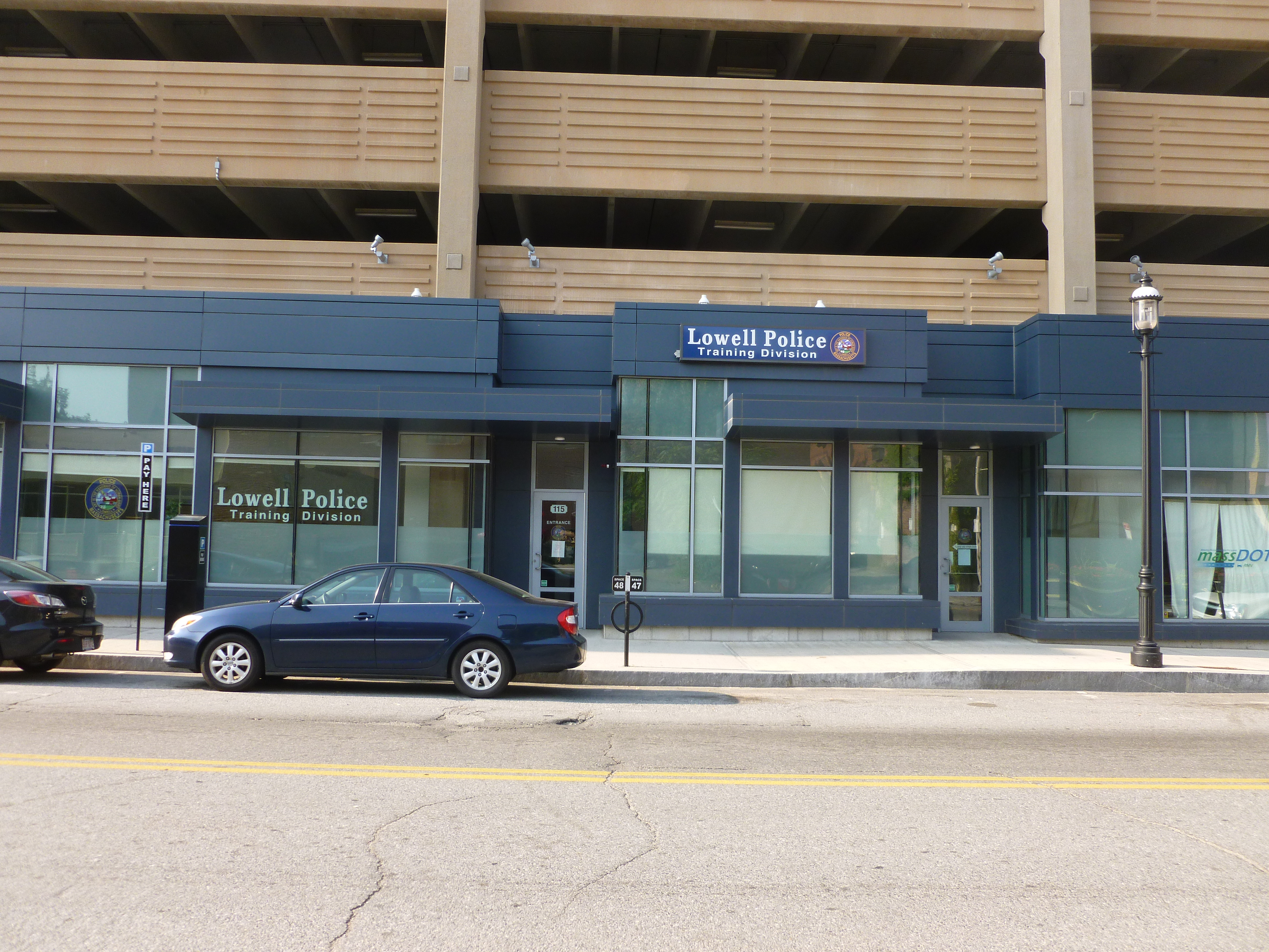 Lowell Police Training Division station, located at 99 Middlesex Street, Lowell, Massachusetts.